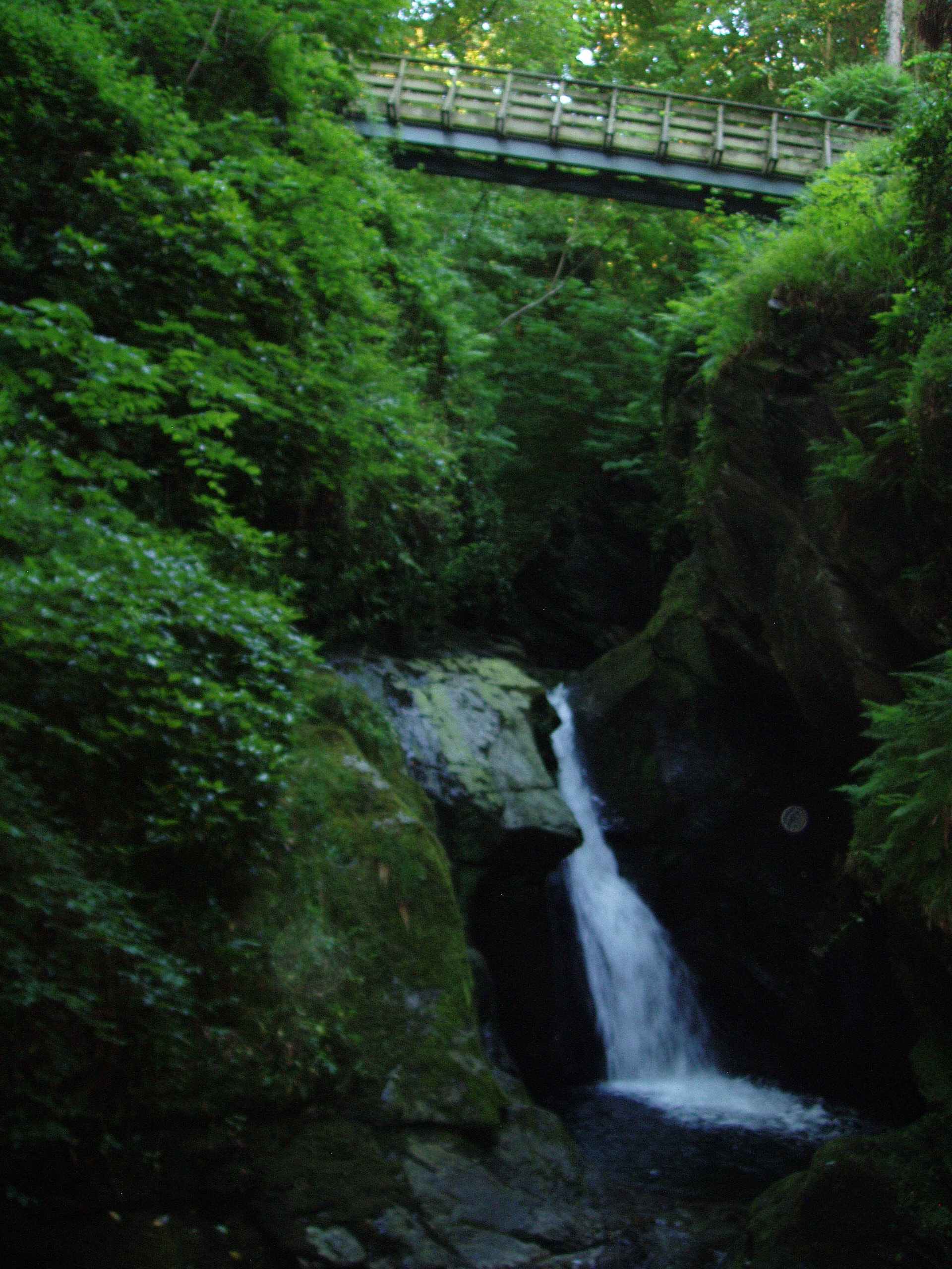 The waterfall at Glen Maye is frequently the subject of photographs featuring glens around Isle of Man.